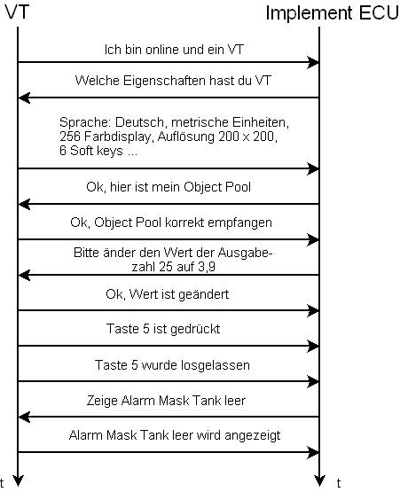 ISOBUS: Description how a VT communicates